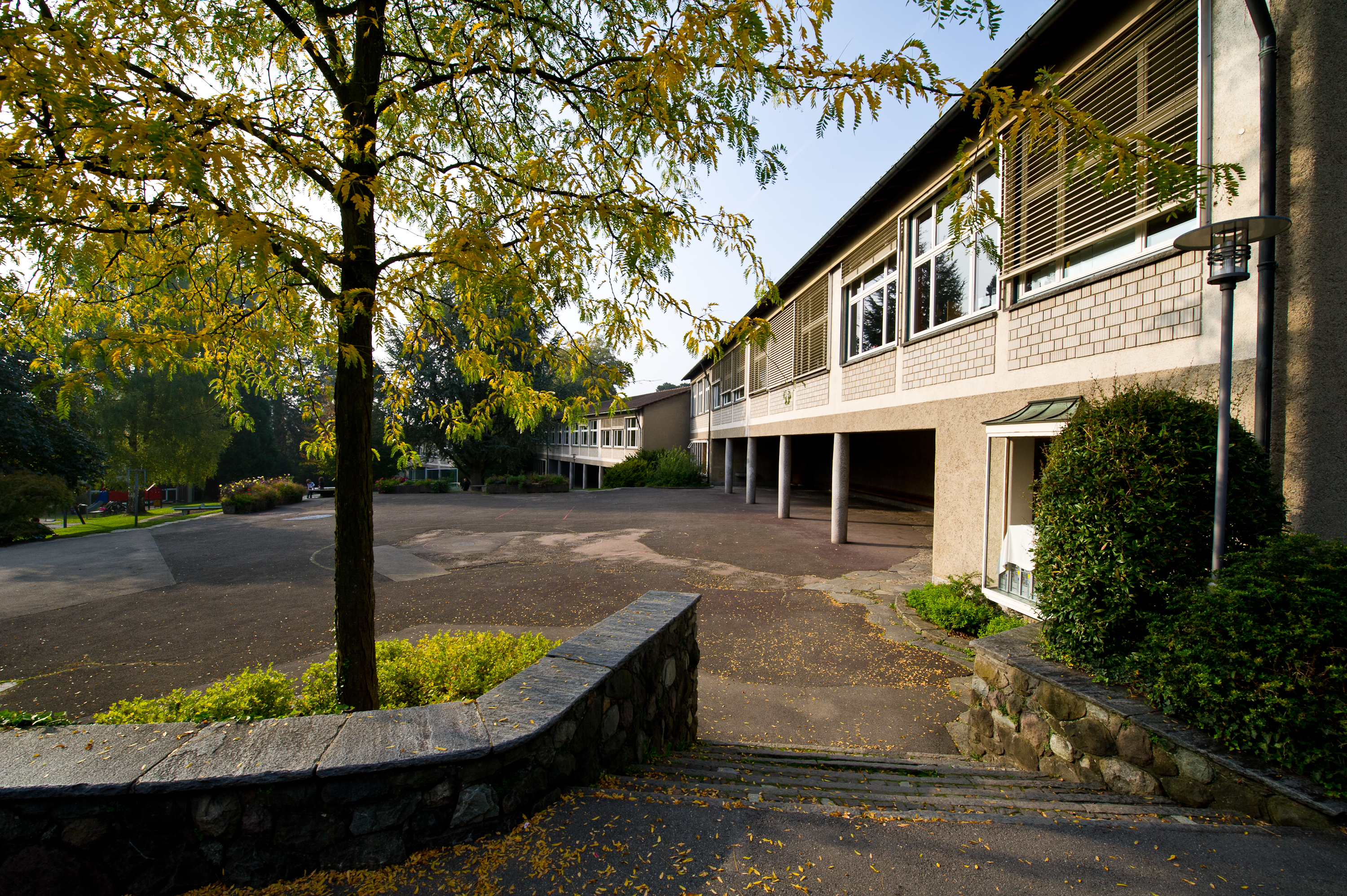 Felsberg school building, Lucerne, LU, Switzerland.